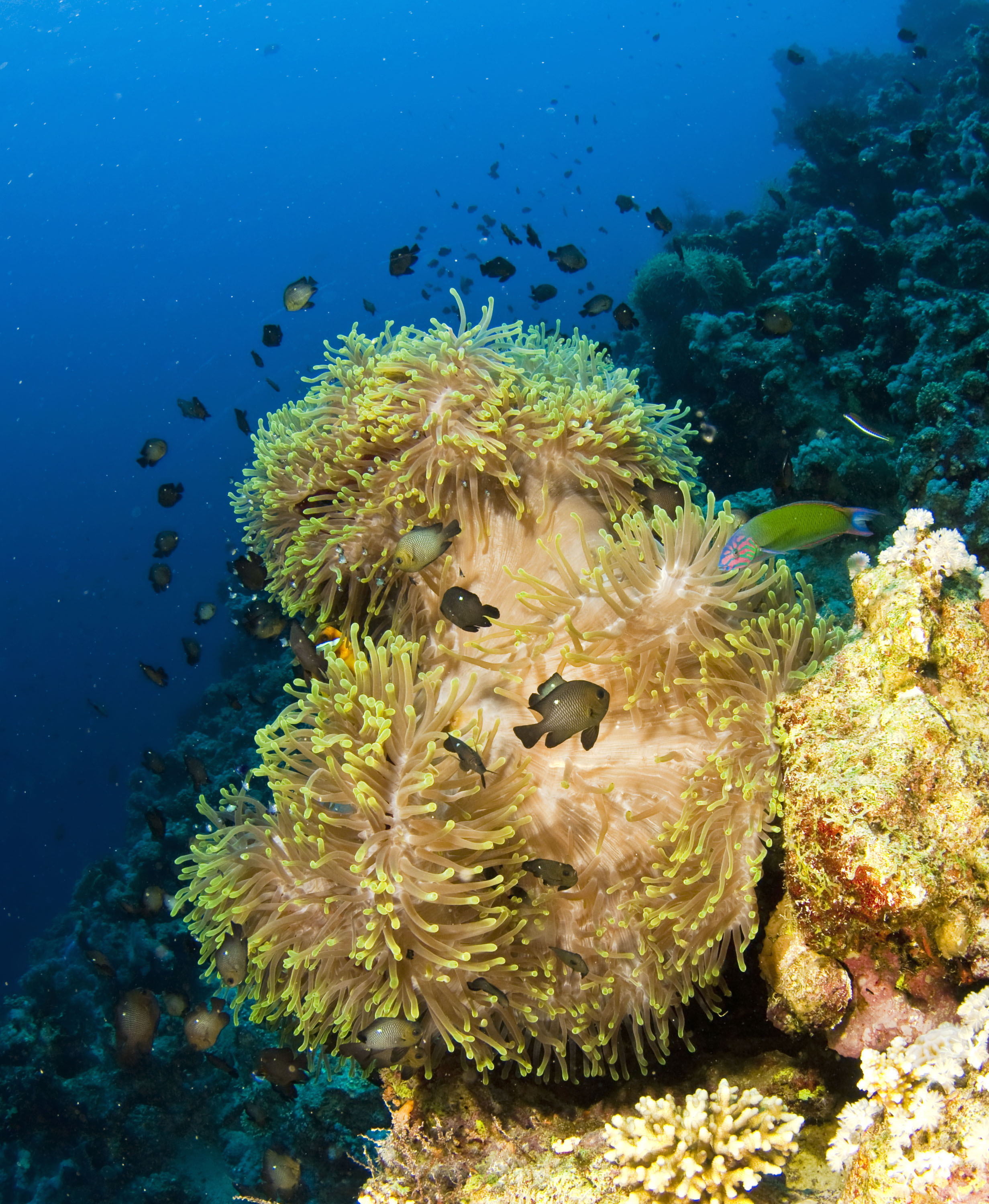 Heteractis magnifica